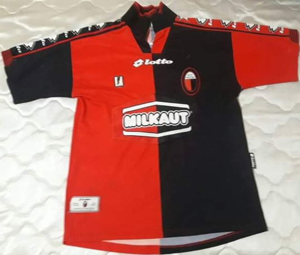 T-shirt holder of Colón 1998